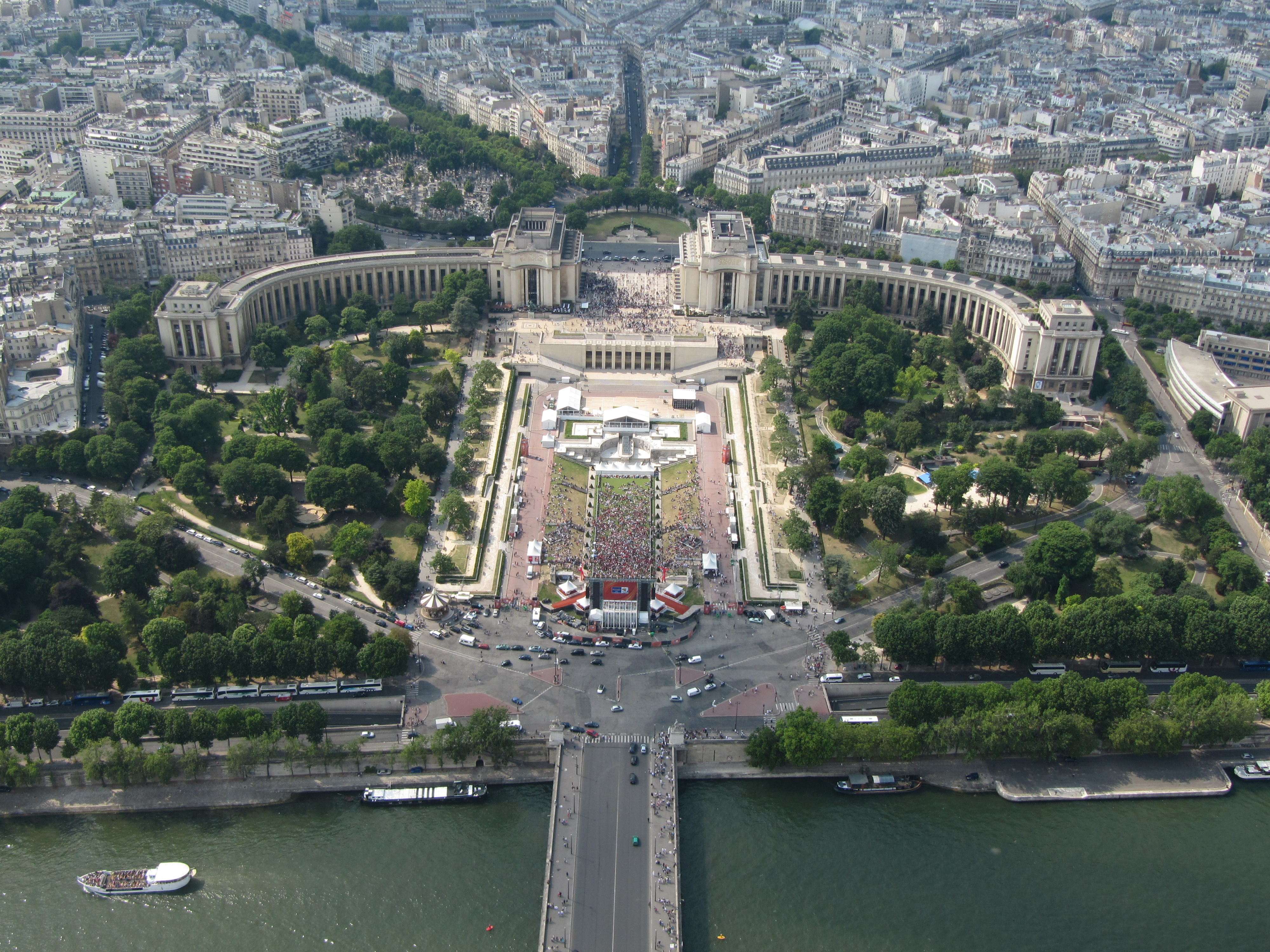 View From The Eiffel Tower